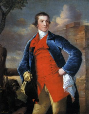 Harry Peckham by Joseph Wright of Derby - paid for by Francis Noel Clarke Mundy of Markeaton